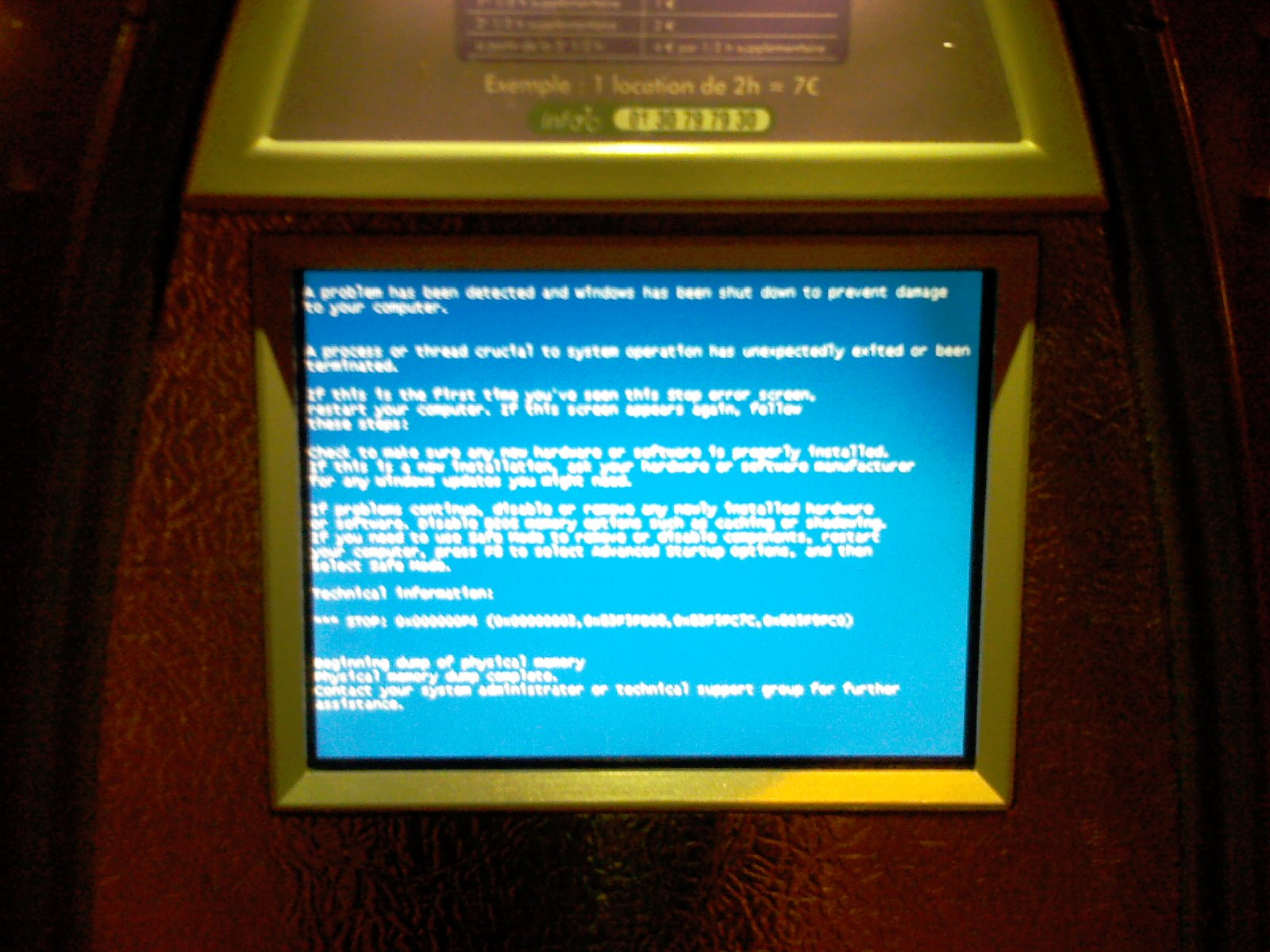 BSOD'ed Vélib' station computer in Paris.